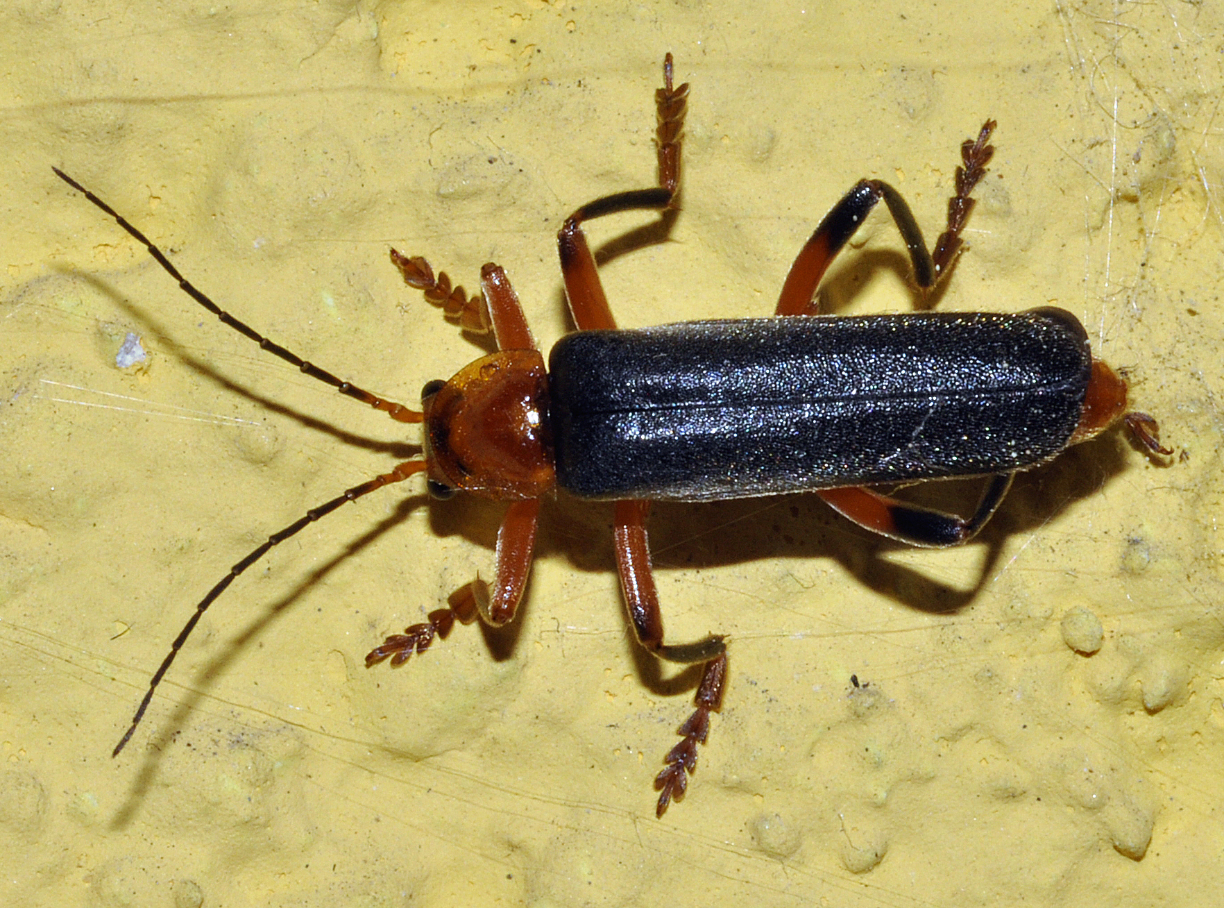 Ancistronycha abdominalis (Fabricius, 1798) (determined by kerbtier.de, Nov 2019). Germany: Göttingen.